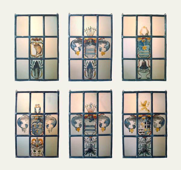 Windows with glass paintings of coats of arms, at Torsnes farm, Jondal, Hordaland, Norway, around 1636. The coats of arms of the following families are shown — upper row from left: Galtung, Orning and Juell, the latter shows the name «Bøer Juell». Lower row from left: Bildt, with the name «Laris Larss.», Orning, with the name «Dirick Echoff» and Mowatt, with the name «Peder Rasmus.». Each of the six windows is approx. 24 x 36 cm.